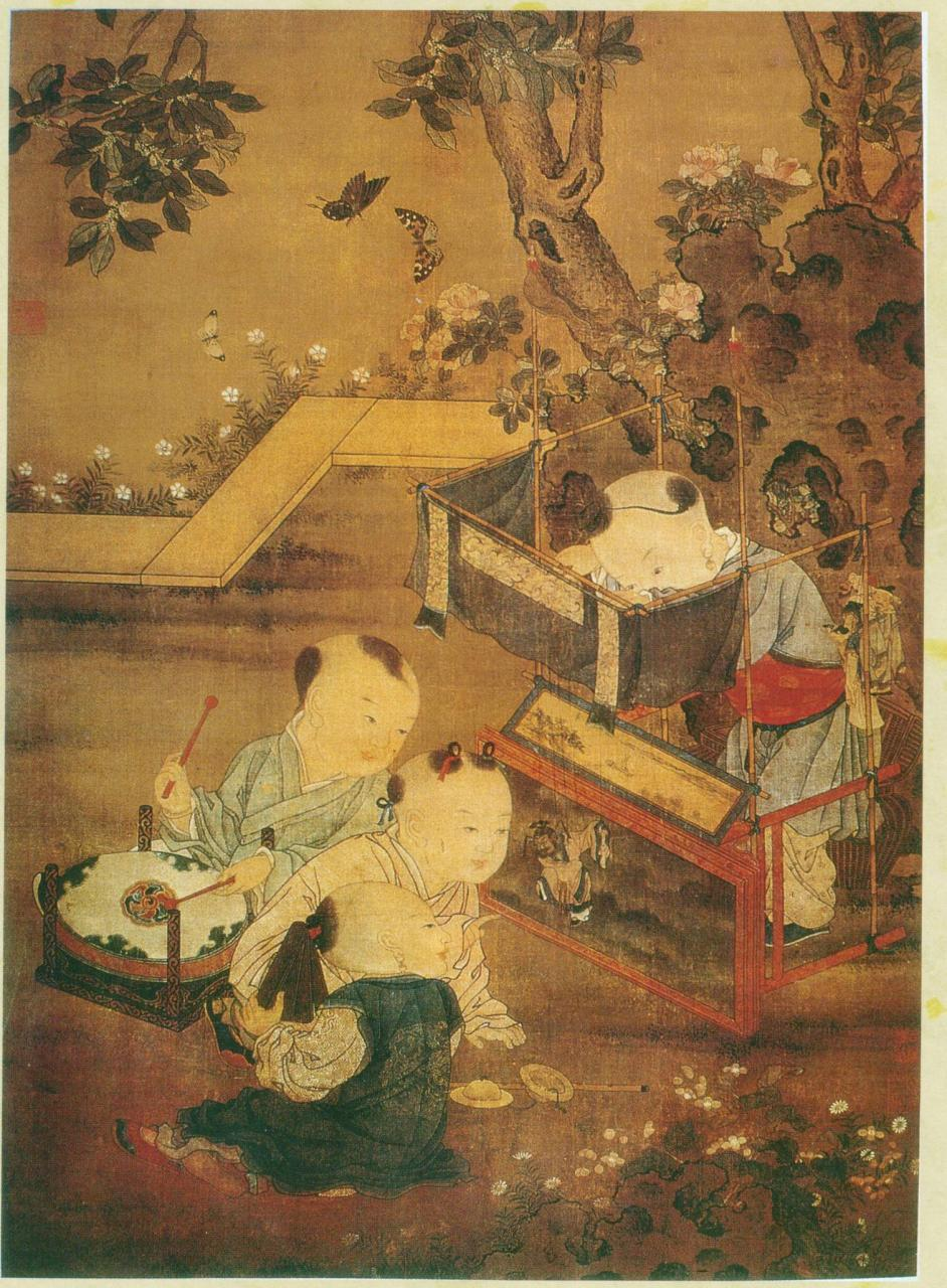 "A Children's Puppet Show", a painting by the Song-dynasty era Chinese artist. 120.3x77.2 cm